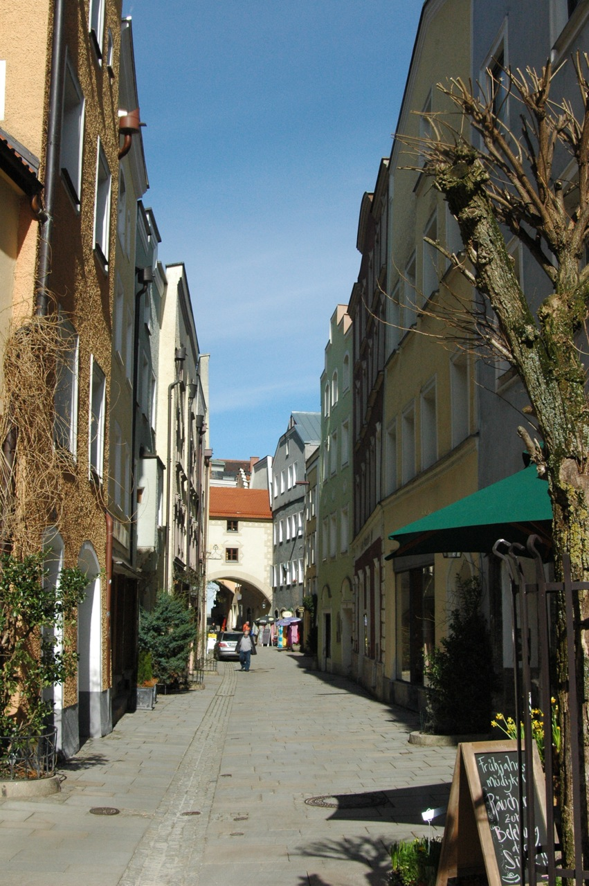 Burghausen, Bavaria: The narrow medieval street "In den Grüben"